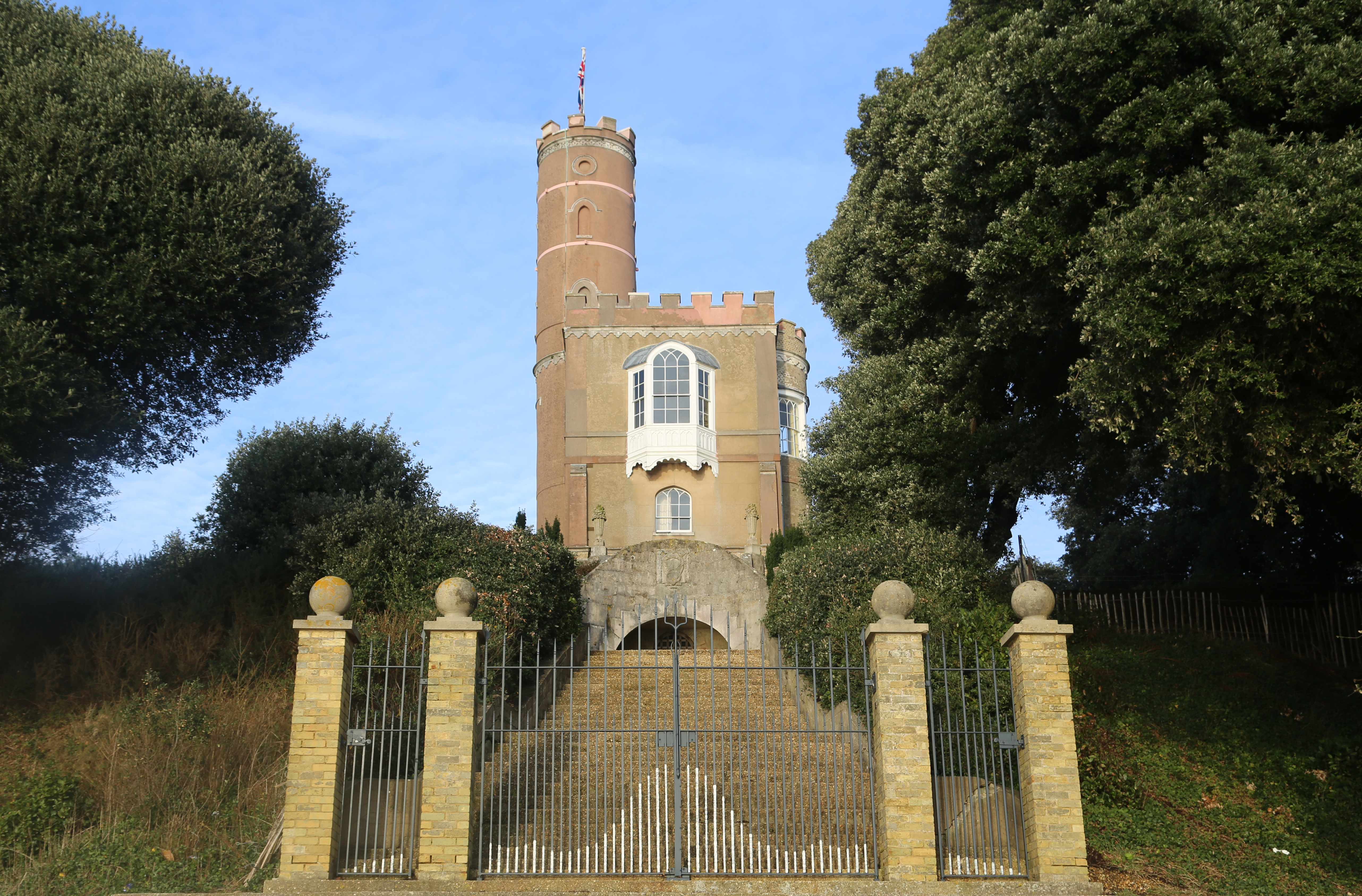 Photo of Luttrell's Tower taken from the beech